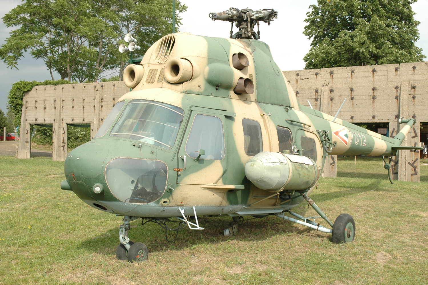 Mil Mi-2